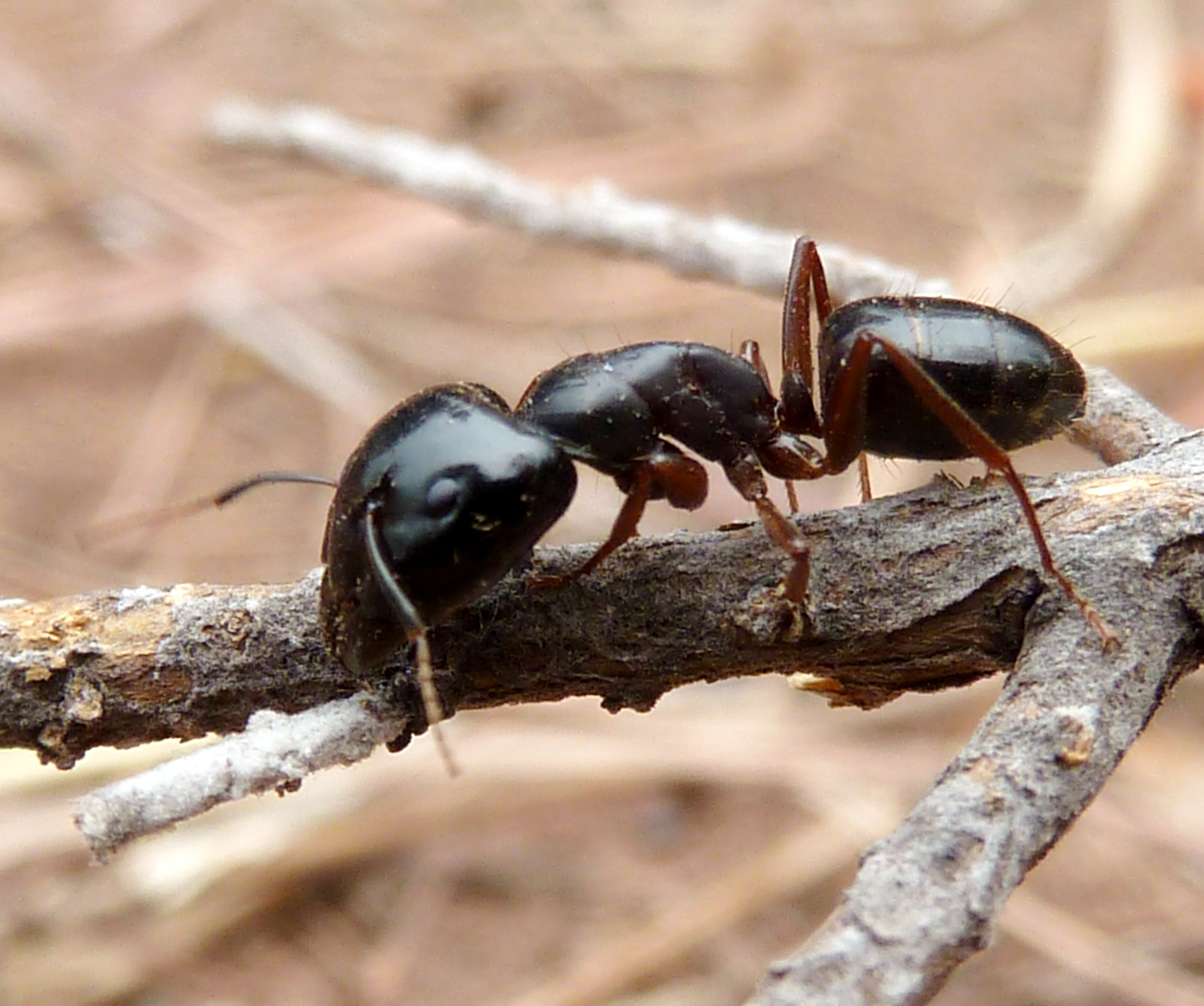 Major worker of Camponotus empedocles at Little Eden in De Tweedespruit conservancy, Gauteng